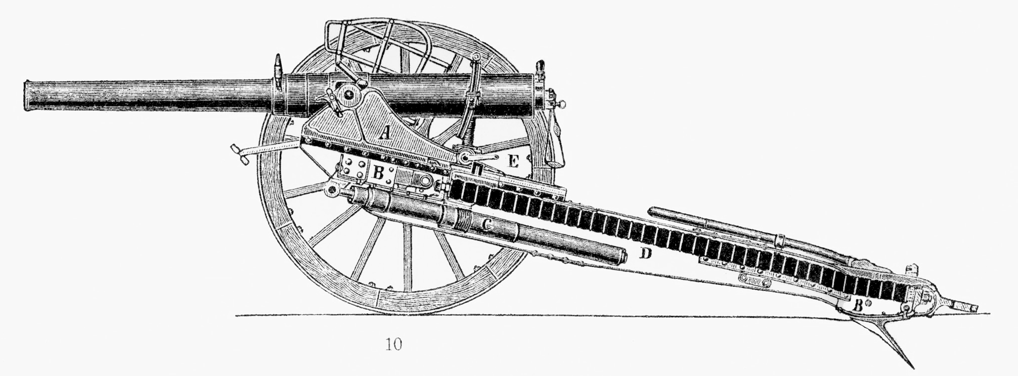 Cross-section of the 3-inch quick-firing gun M1900 carriage, an illustration from Brockhaus and Efron Encyclopedic Dictionary (1890—1907)